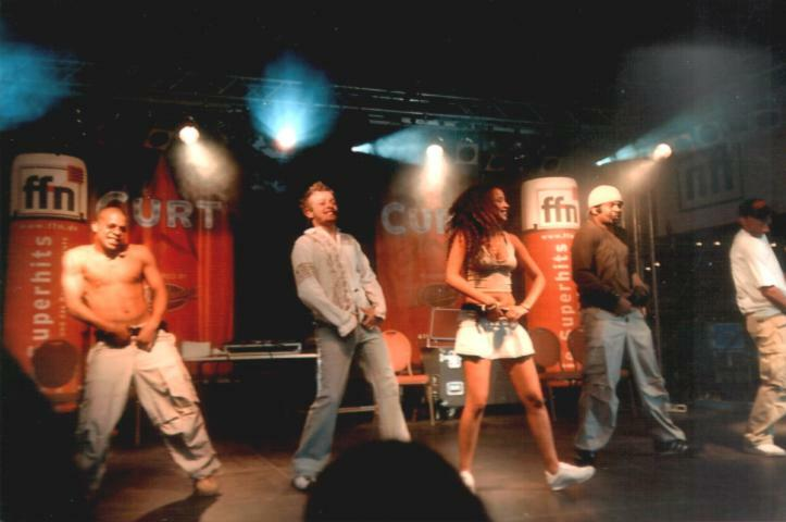 Bro´Sis in August 2003 in Hannover